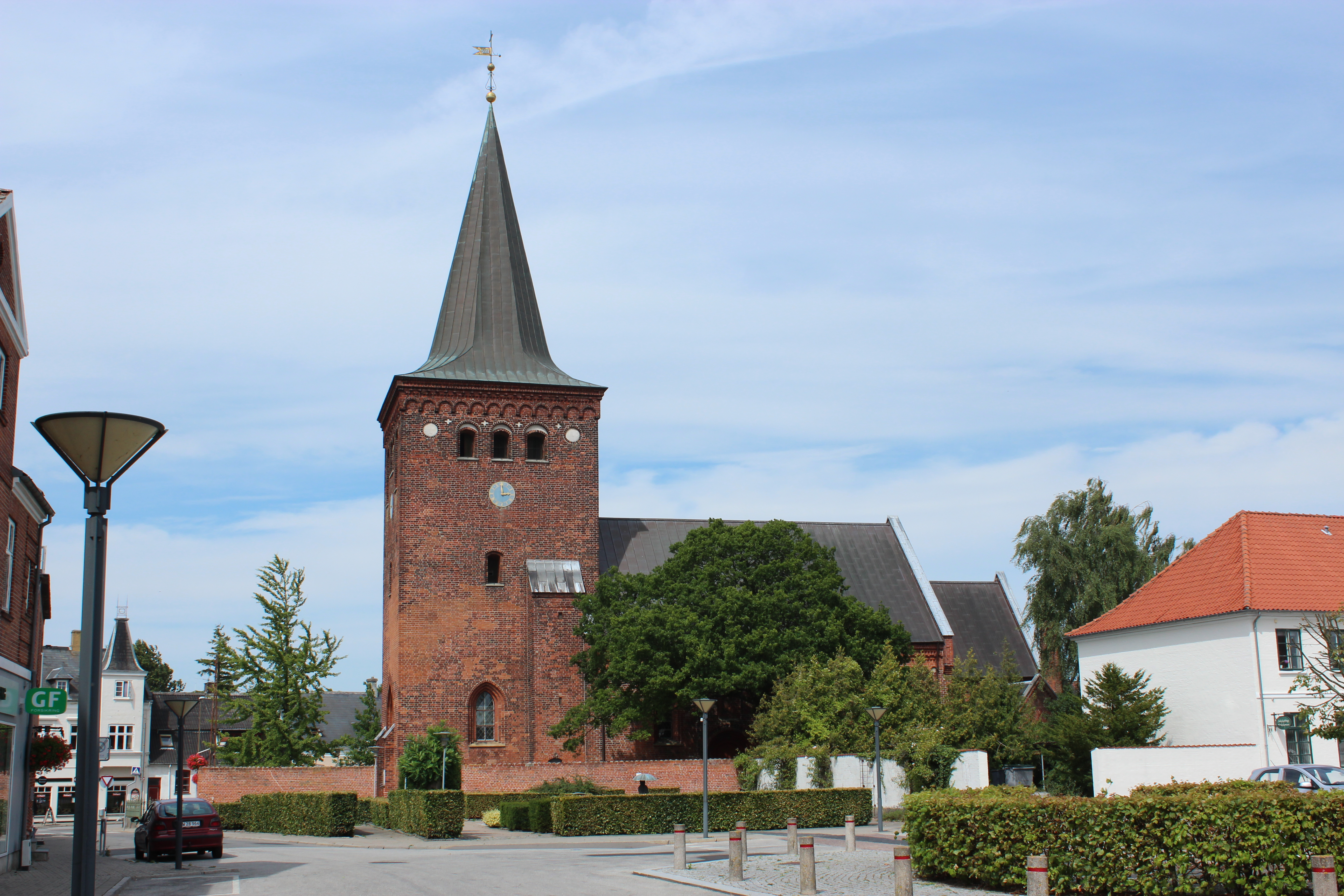 Sakskøbing Church on Lolland, Denmark, seen from the south.